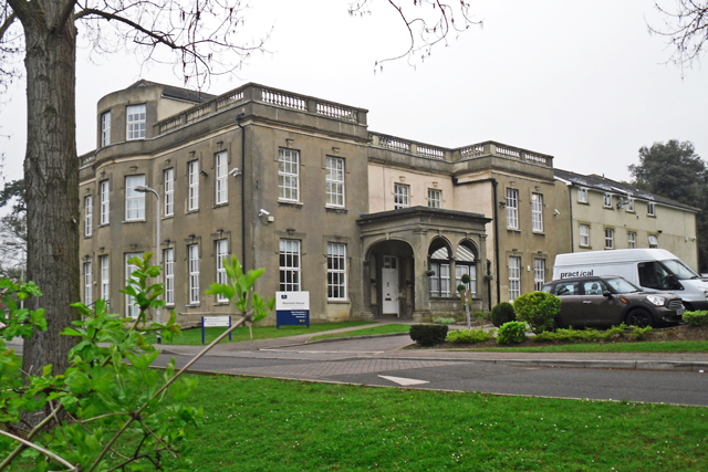 The Mansion House at Coley Park. Now the Outpatients Department of the Berkshire Independent Hospital. Built in the early 1800s as a private residence on a country estate, its original name was Coley House. Requisitioned in World War 2, it was subsequently occupied by the Ministry of Agriculture, Fisheries and Food which vacated the house in the 1980s. After several years of vandalism and decay, the Grade II listed property was restored and extended by the hospital's owners and reopened for use in 1997.